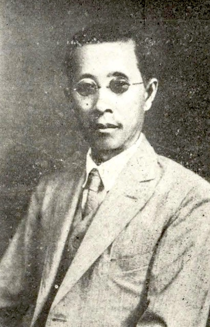 鄭坤五 Tenn Khun-ngo